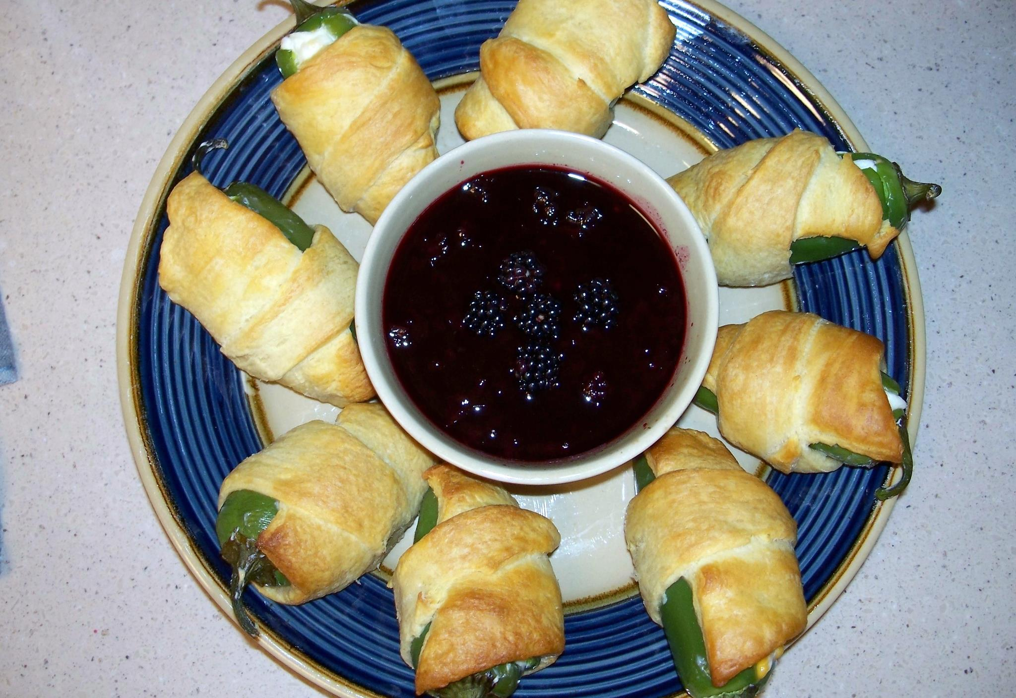 Stuffed jalapeños wrapped in crescent roll dough served with a blackberry dipping sauce.